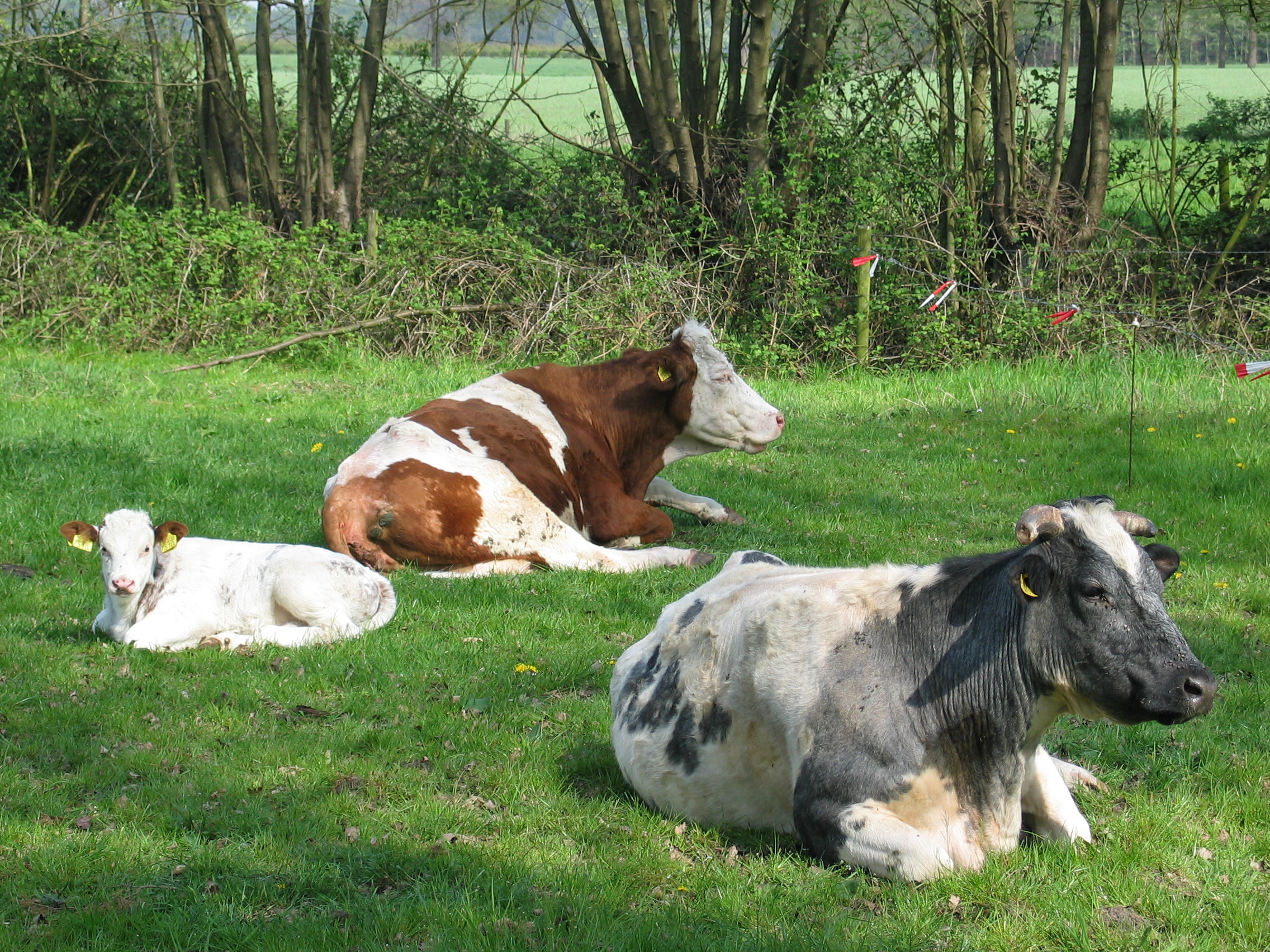 2 cows and a calf near Winterswijk, NLD